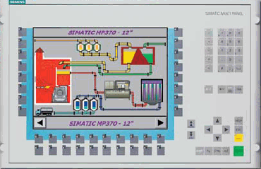 HMI Panel by Siemens